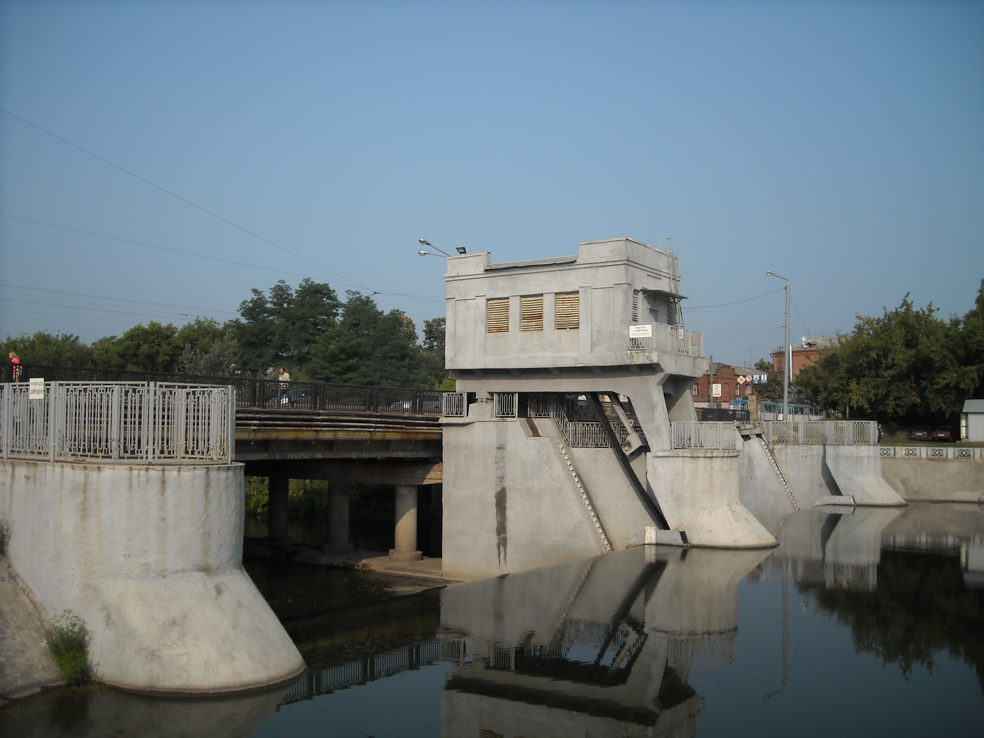 Ukraine.Kharkov-city.Honchrivsky bridge